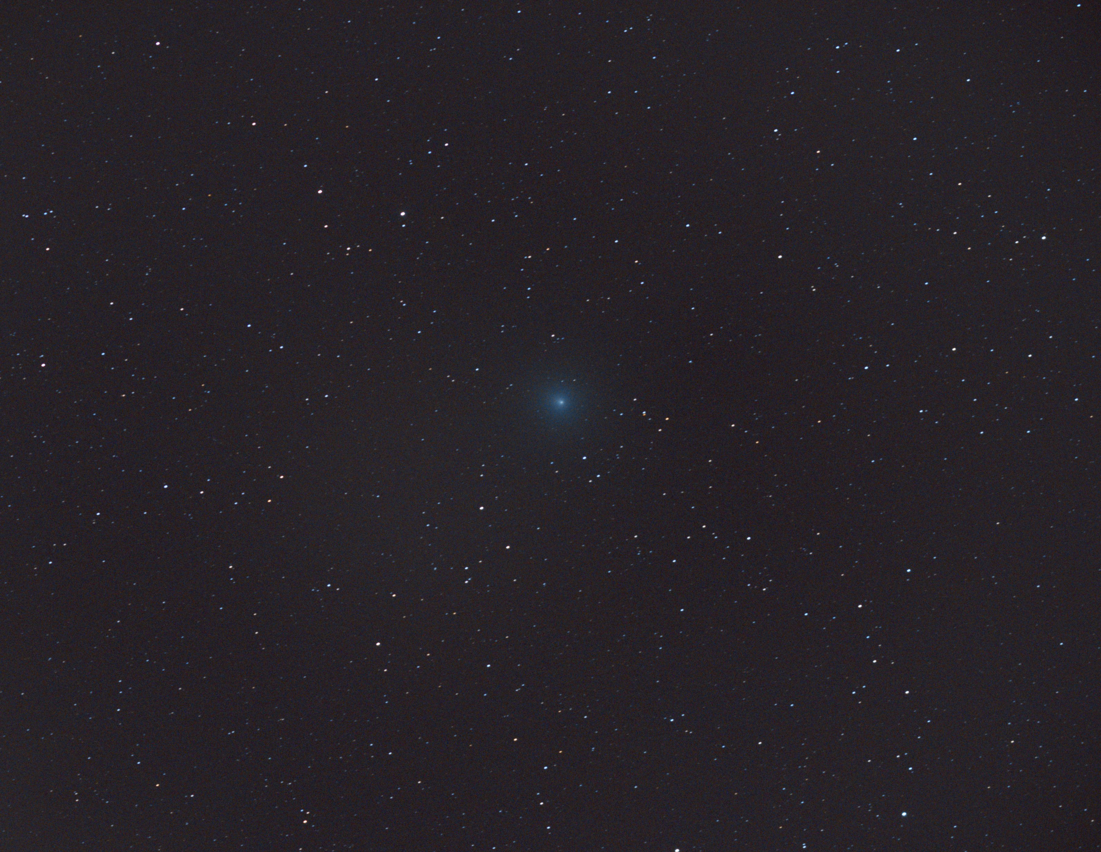 Comet 46p Wirtanen photographed on 10 December 2018 from the Netherlands.